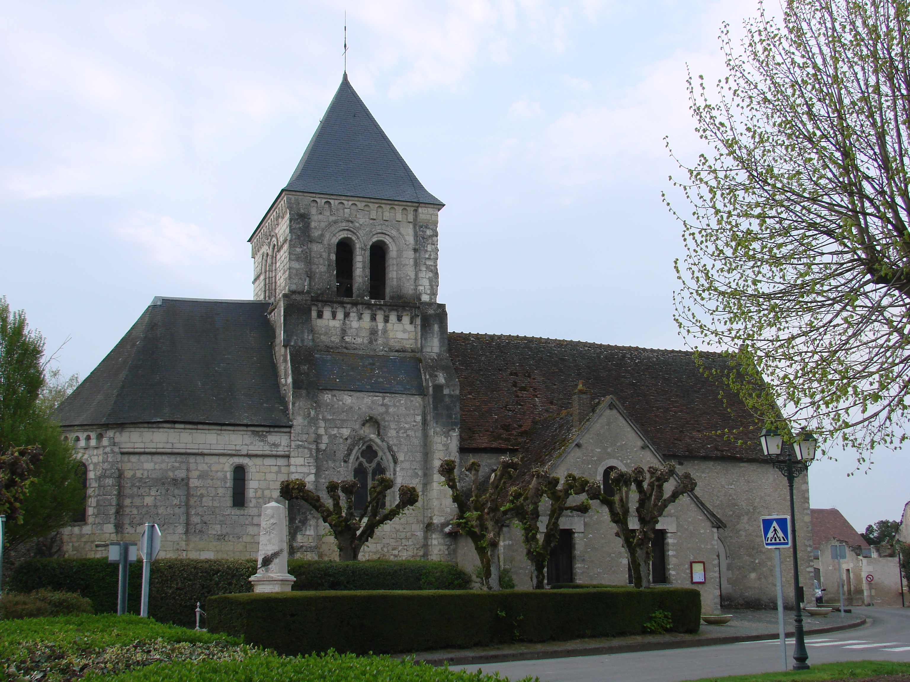 Church Saint-Martin of Sublaines (France, département of Indre-et-Loire)